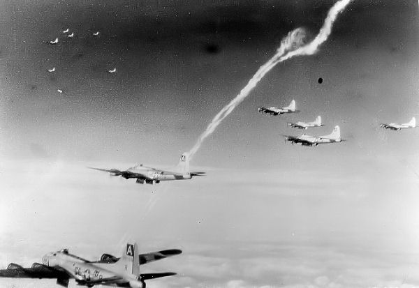 B-17s of the 410th Bomb Squadron, 94th Bomb Group, based at RAF Bassingbourn in England, on a mission over Europe.